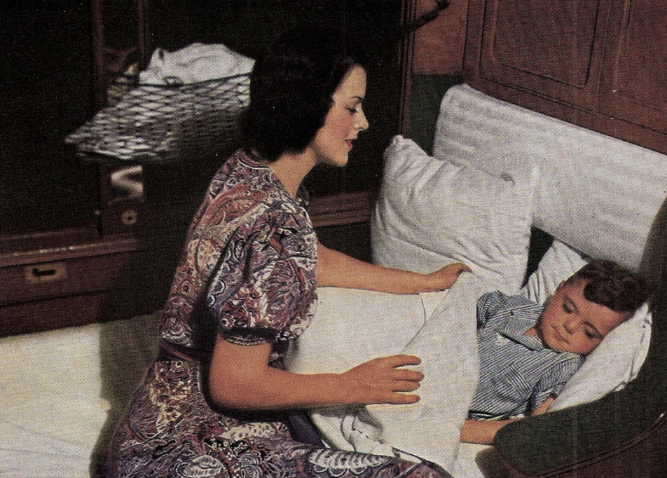 Photo of a Scout sleeping car. This is a 1939 copy of the brochure seen here File:Santa Fe Scout brochure 1941.JPG.